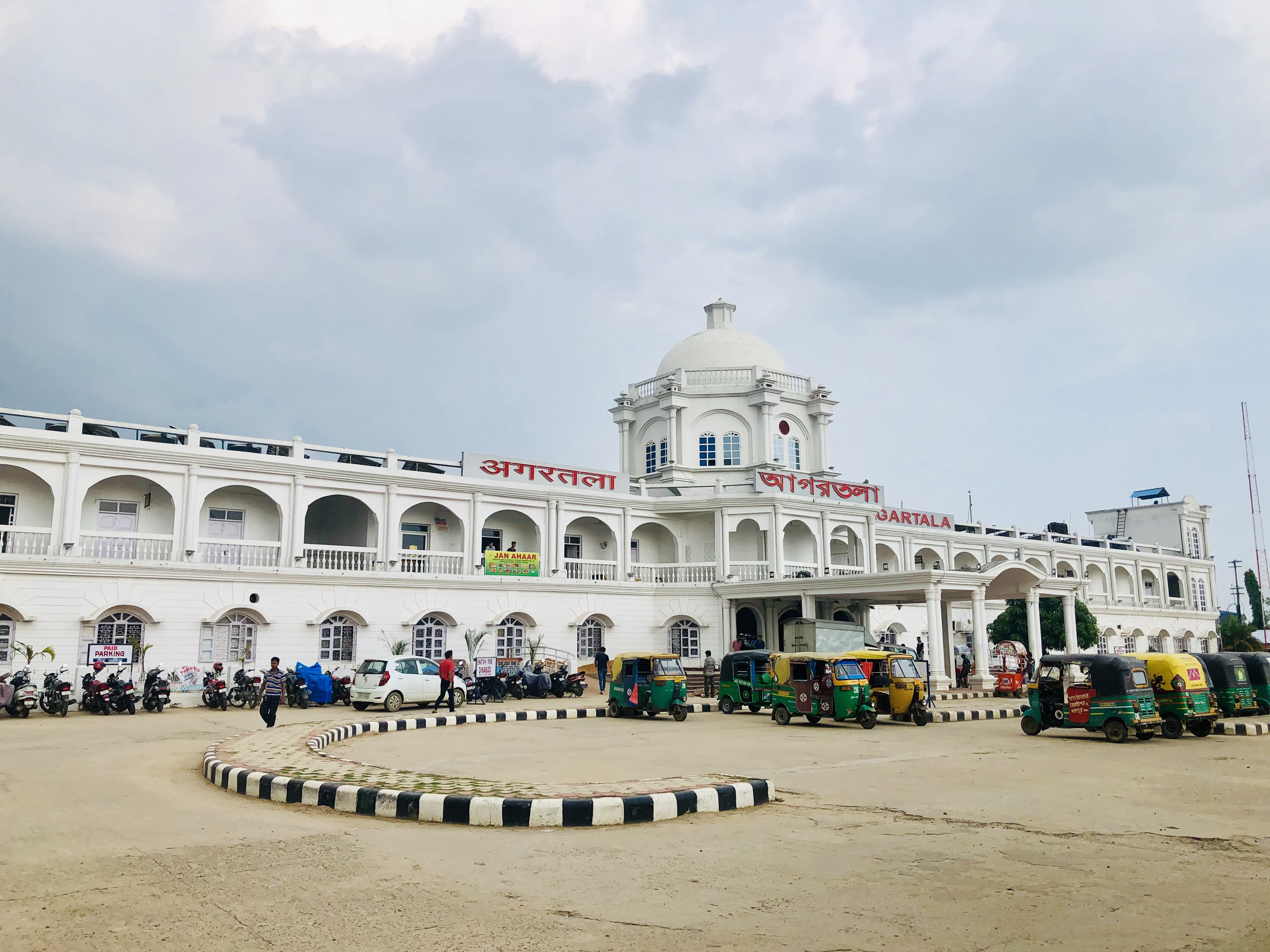 Built recently to resemble the Ujjayanta Palace